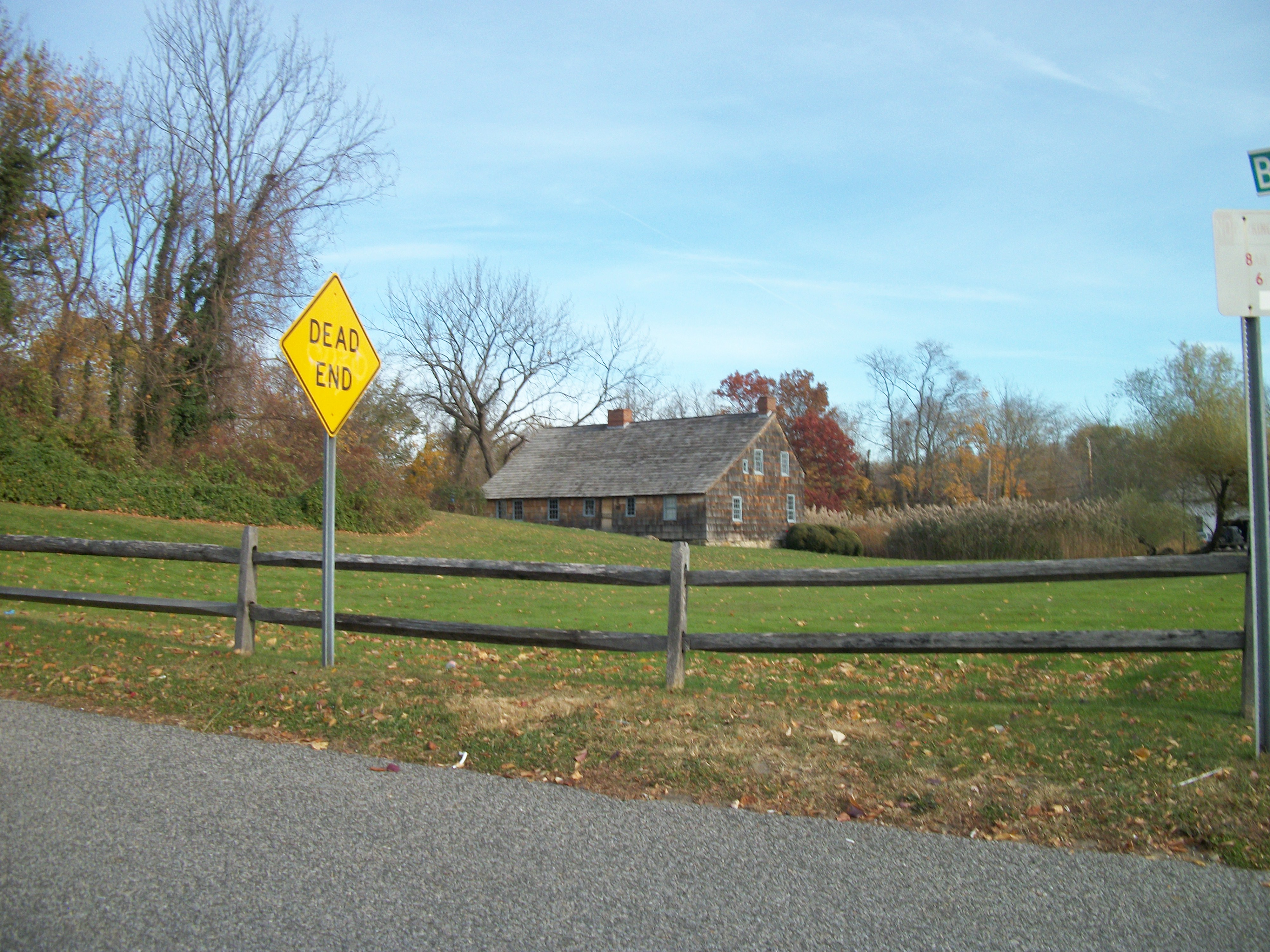 Shot of the Brewster House off the corner of New York State Route 25A and Brewster Lane in East Setauket, New York. Can also be found on the corner of NY 25A and Runs Road.